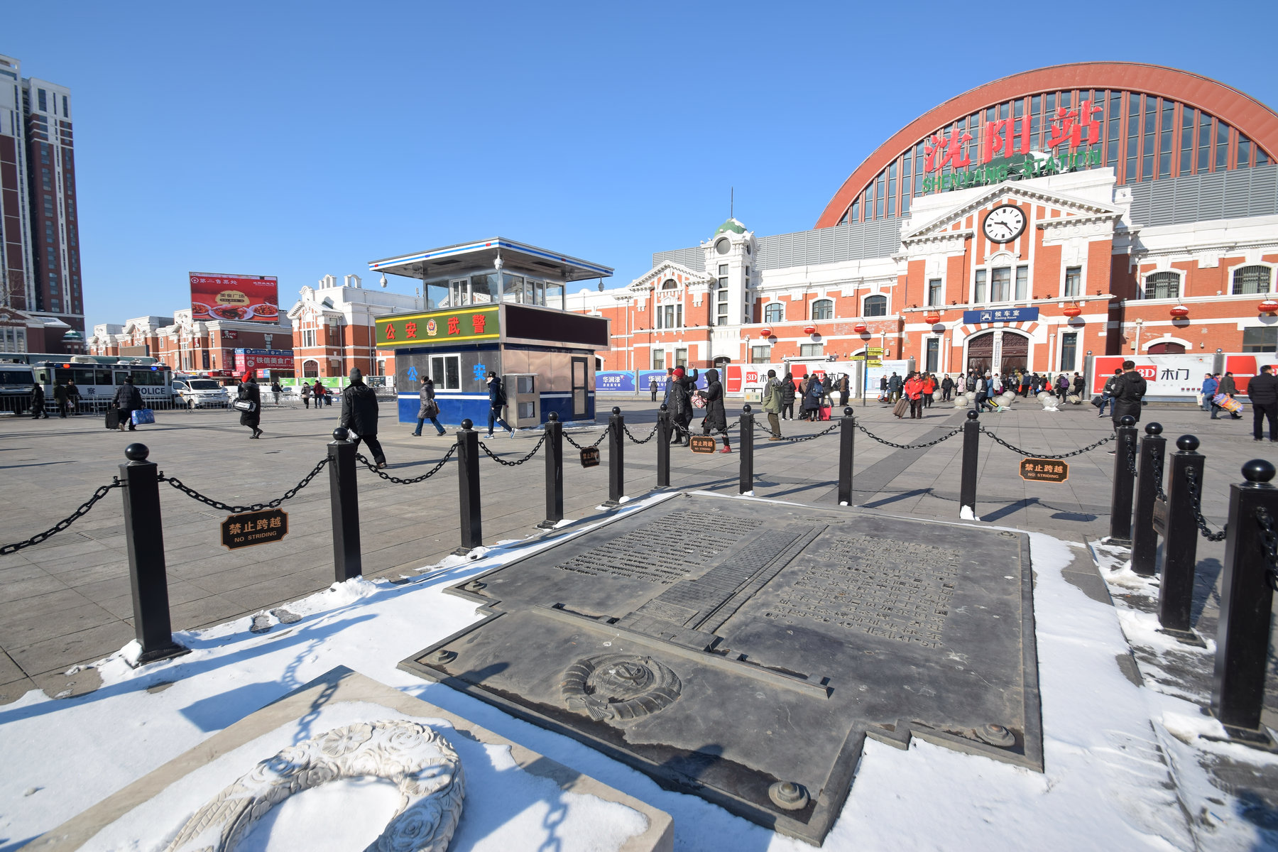 Monument to the Soviet Red Army Martyrs (rebuilt on 23 August 2010), Shenyang Railway Station